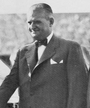 President of Argentine Football Association, Adrián Escobar, before a match between Argentina and Brazil national teams at Viejo Gasómetro stadium.